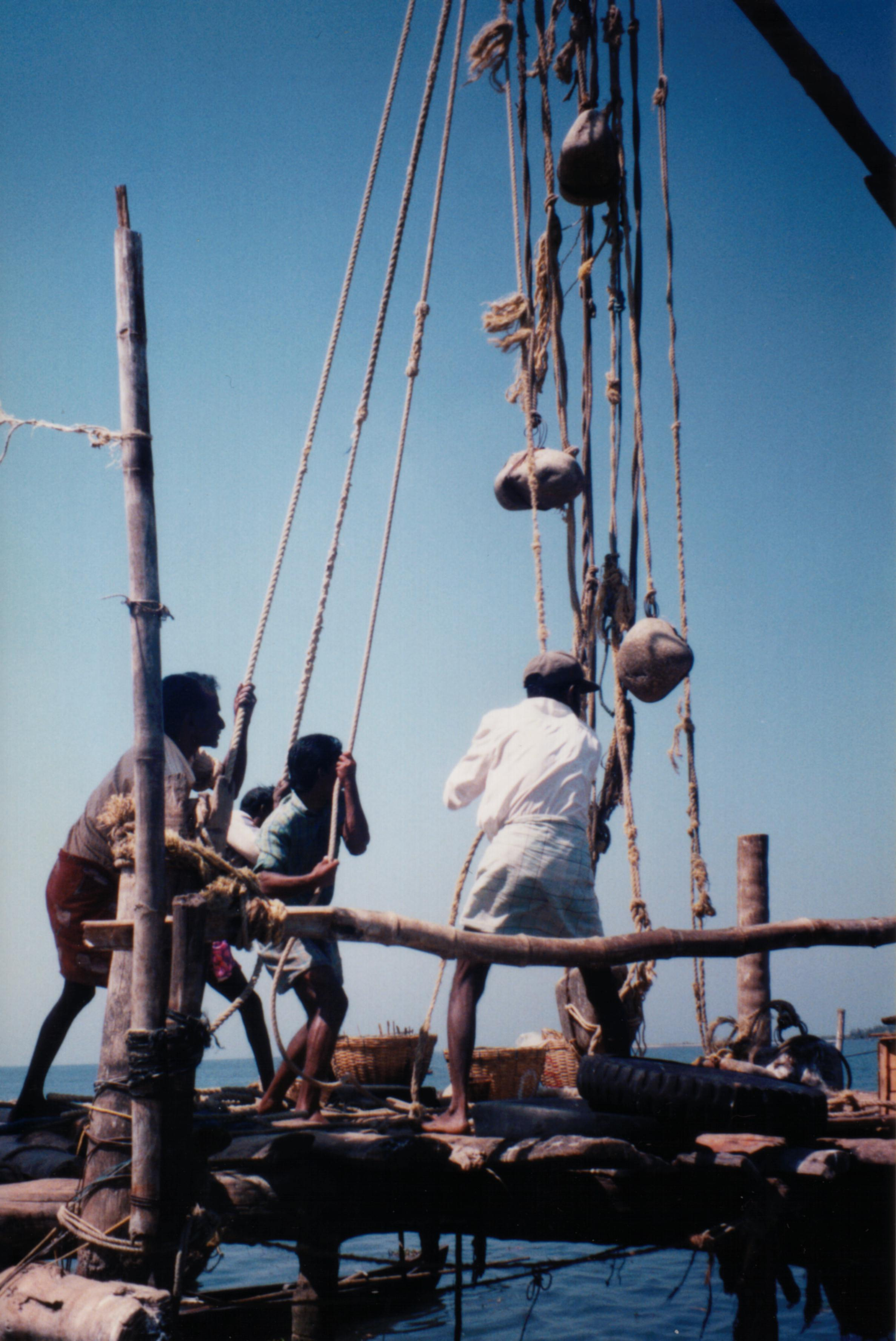 Chinese fishing net in operation in Kochi (formerly known as Cochin) in India. Photographed in 1995 by Gaius Cornelius